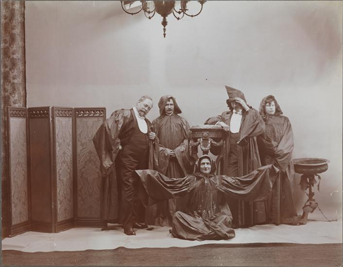 Byron Company (New York, N.Y.) The Byron Photographic Staff, Hyde Ball, Feb. 1905. From left to right: Joseph Byron, William Whiles, Percy C. Byron, Louis Philip Byron, and in the front Tom Lunt.